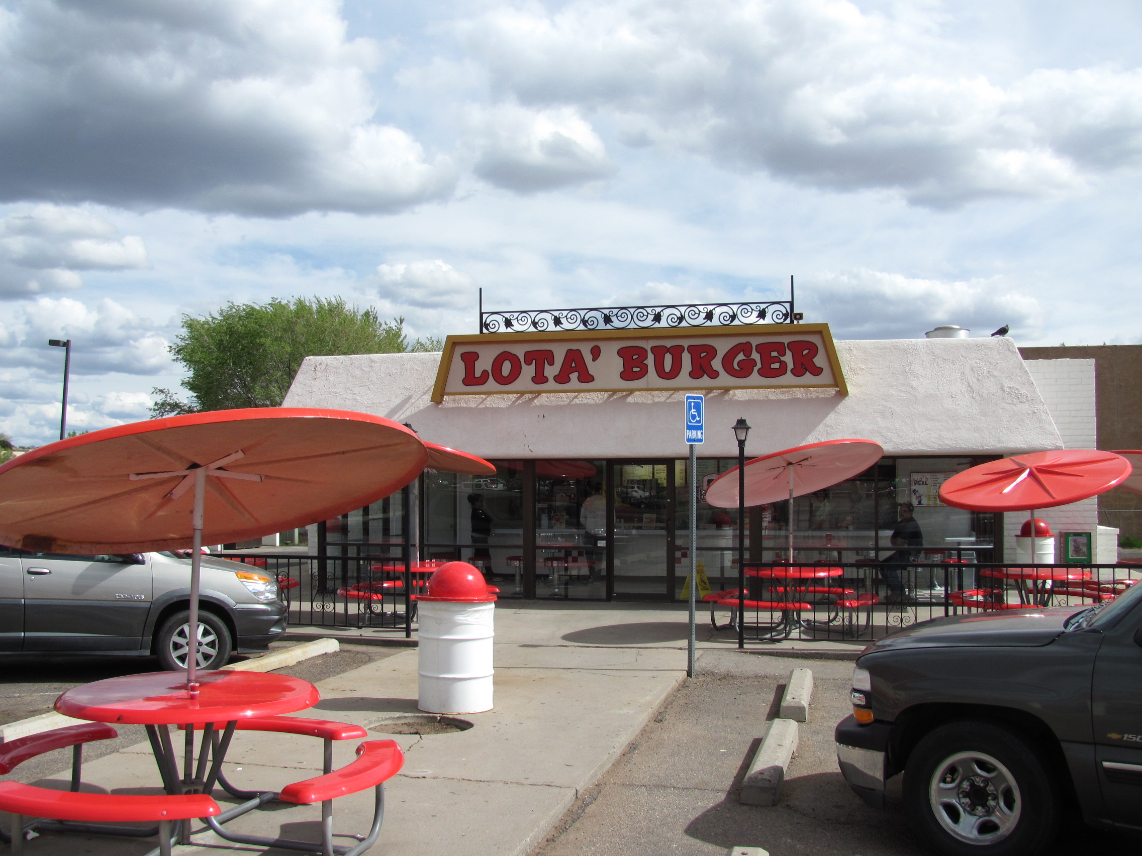 Blake's Lotaburger on St. Michael's Drive, Santa Fe New Mexico